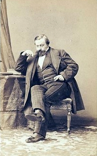 French writer and journalist Albéric Second (1817–1887) by André Adolphe Eugène Disdéri (1819-1889)